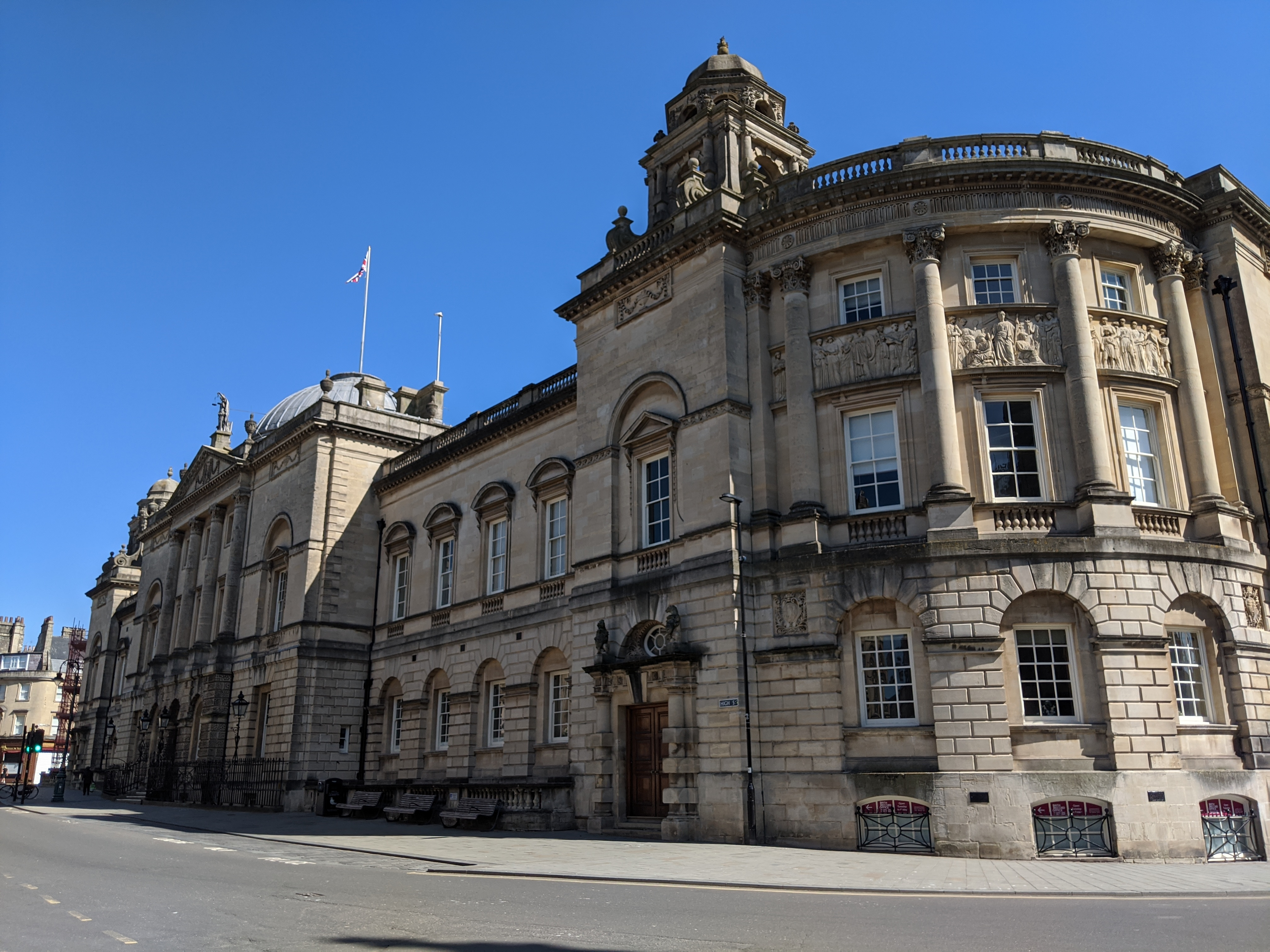 Guildhall, Bath in April 2020